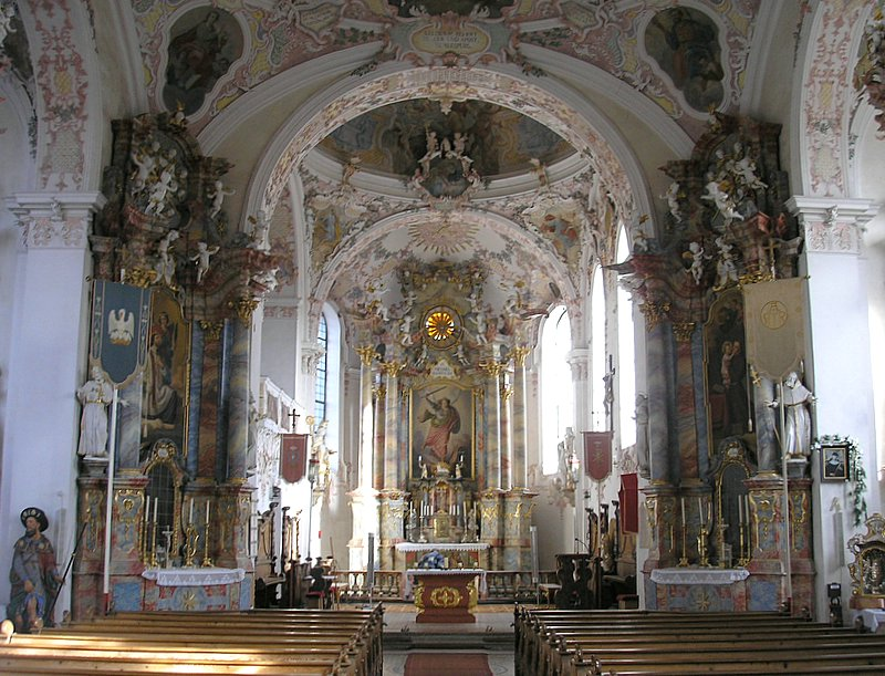 Bertoldshofen, interior view of St Michael Parish Church facing east.